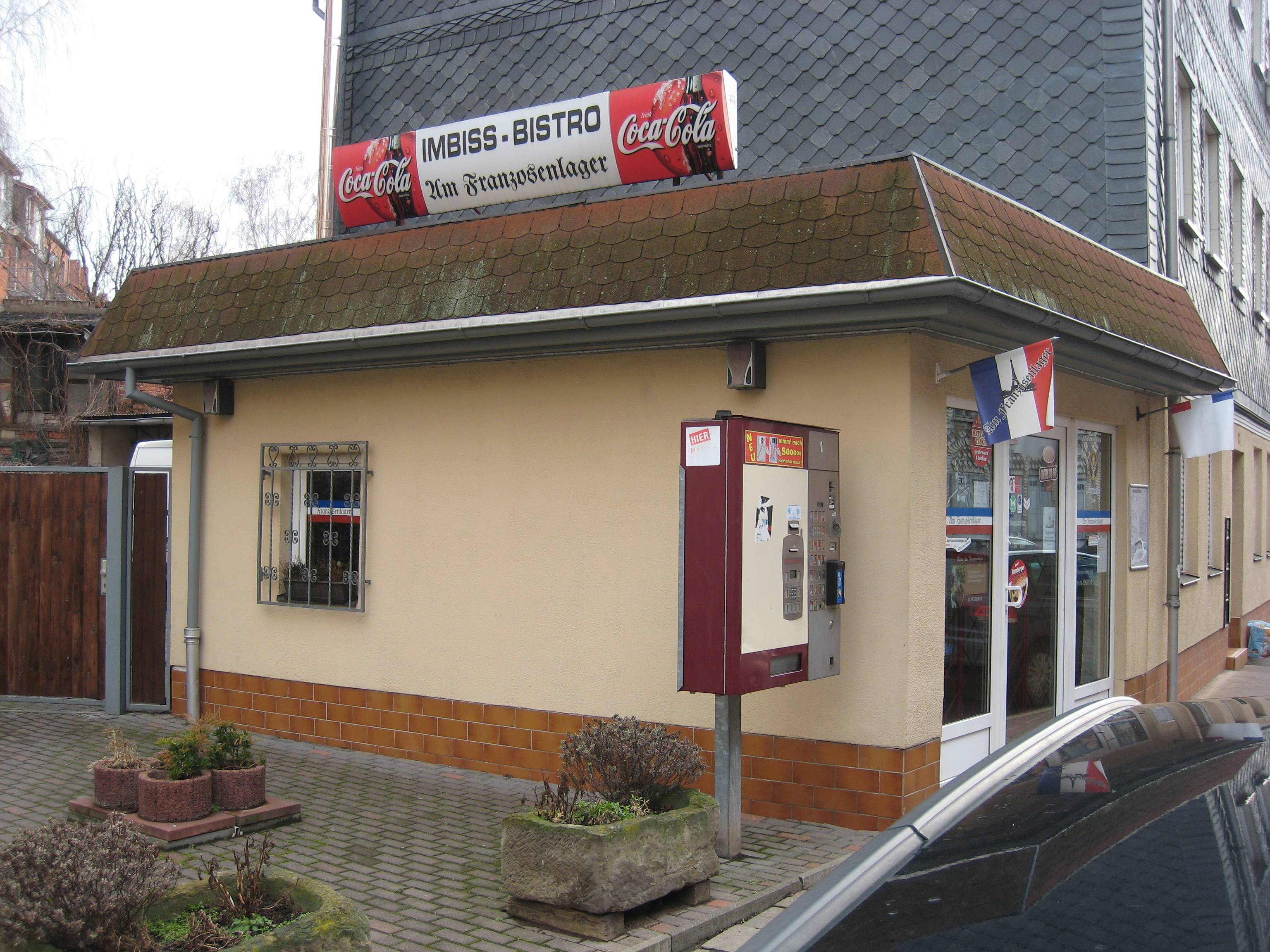 Restaurant Am Franzosenlager, Erfurt, Lagerstraße 2